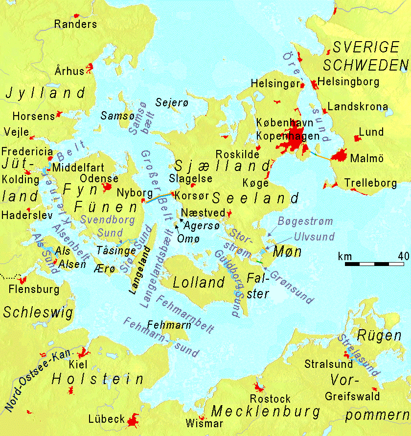 Straits named -bælt ("belt") or -sund ("swimmable strait") in Denmark and southern Baltic Sea. To keep the straits visible, only the longest bridges (orange), tunnels (dark kblue) and dams (dark green) are marked